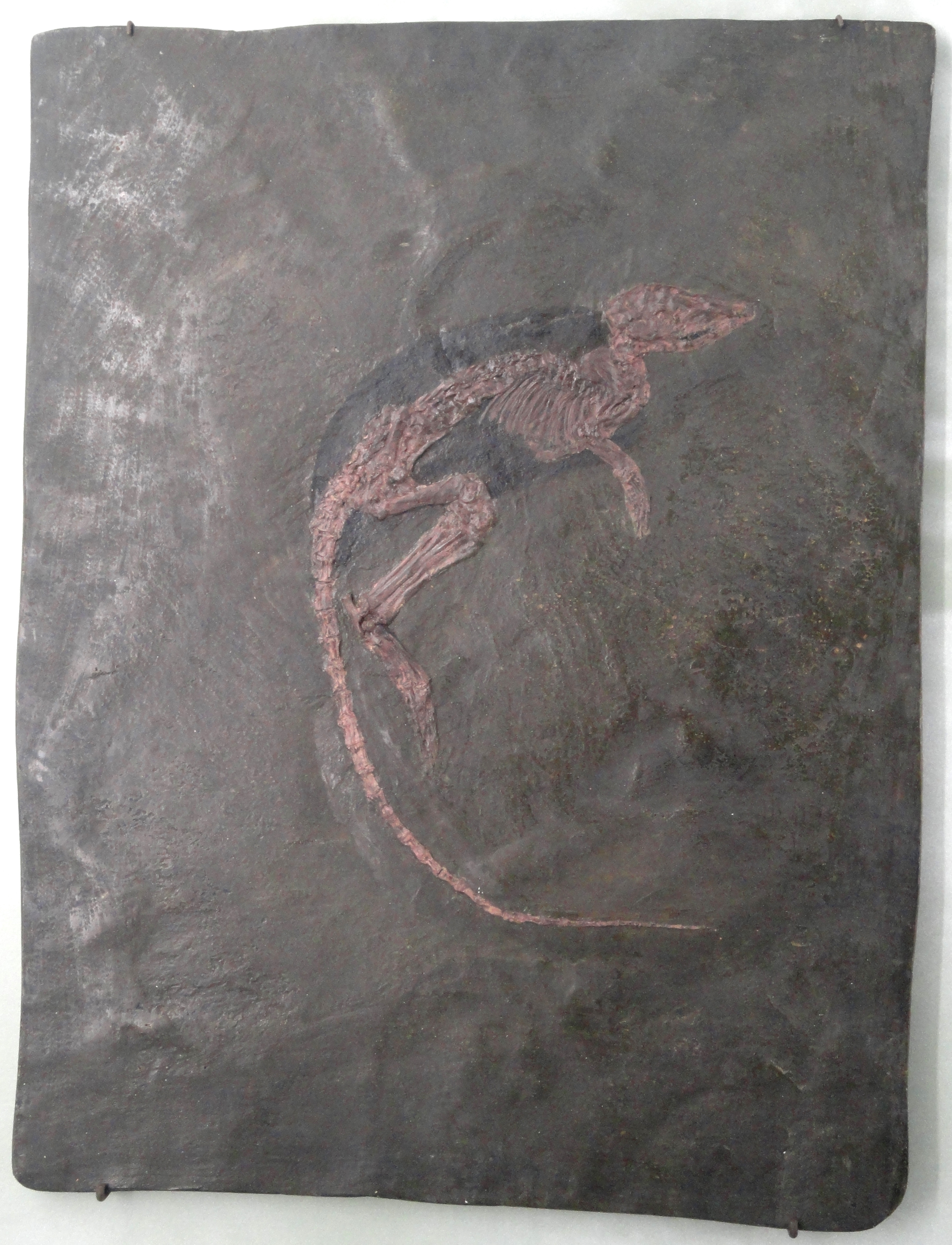 Leptictidium nasutum. Exhibit in Naturmuseum Freiburg, Freiburg im Breisgau, Baden-Württemberg, Germany.